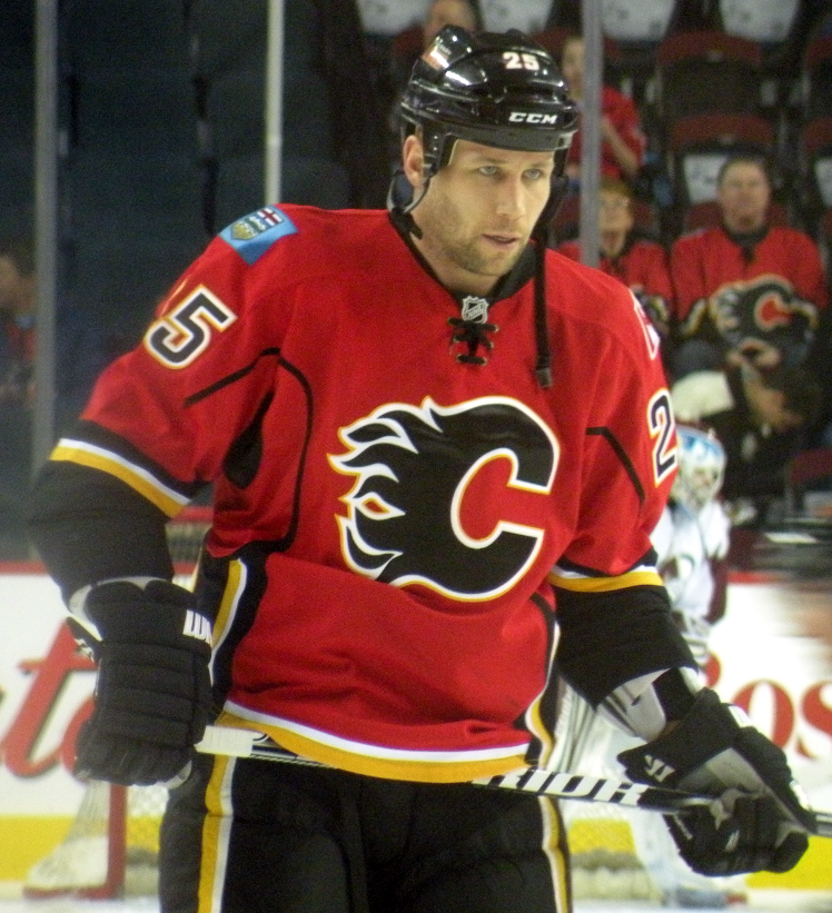 Calgary Flames forward Steve Begin prior to a National Hockey League game against the Colorado Avalanche.